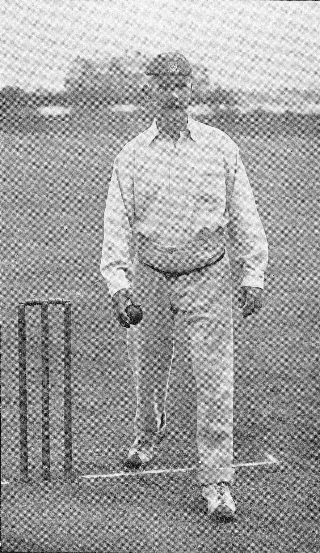 "Walter Humphrey's [sic] lob-bowling in the act of delivery."